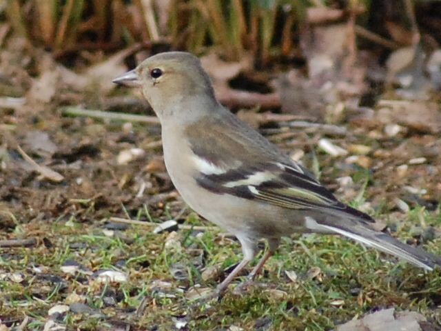 Female Chaffinch